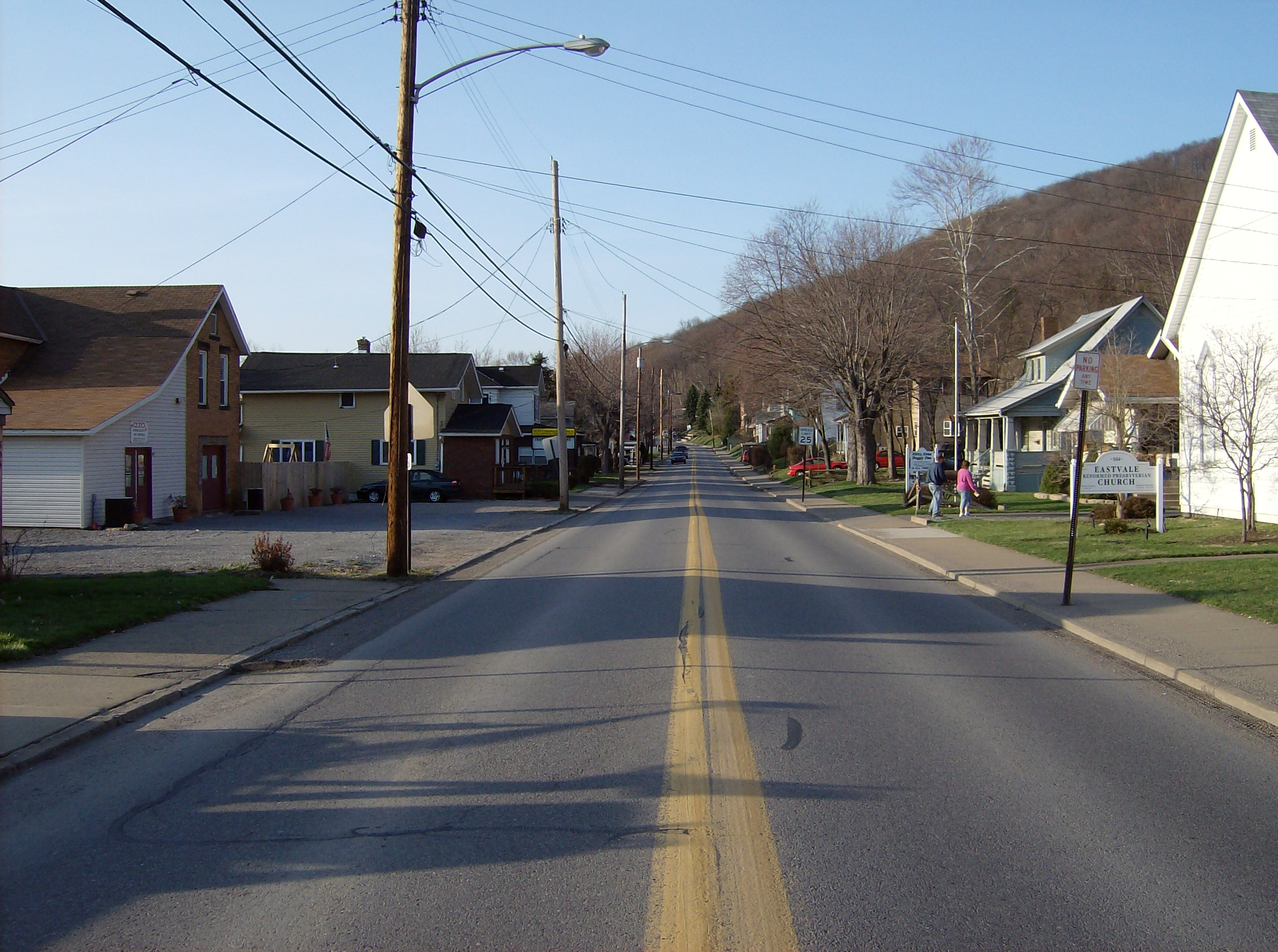 View northward along Second Avenue (Pennsylvania Route 588), the main street of Eastvale, Pennsylvania, United States.